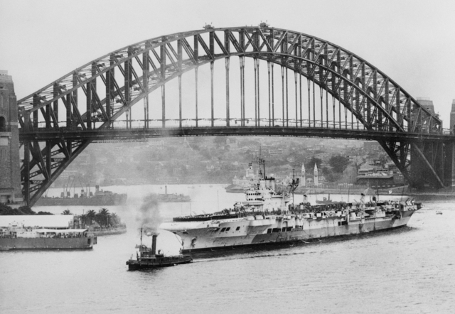 HMS Implacable arriving at Sydney at the end of her voyage from the United Kingdom on 8 May 1945